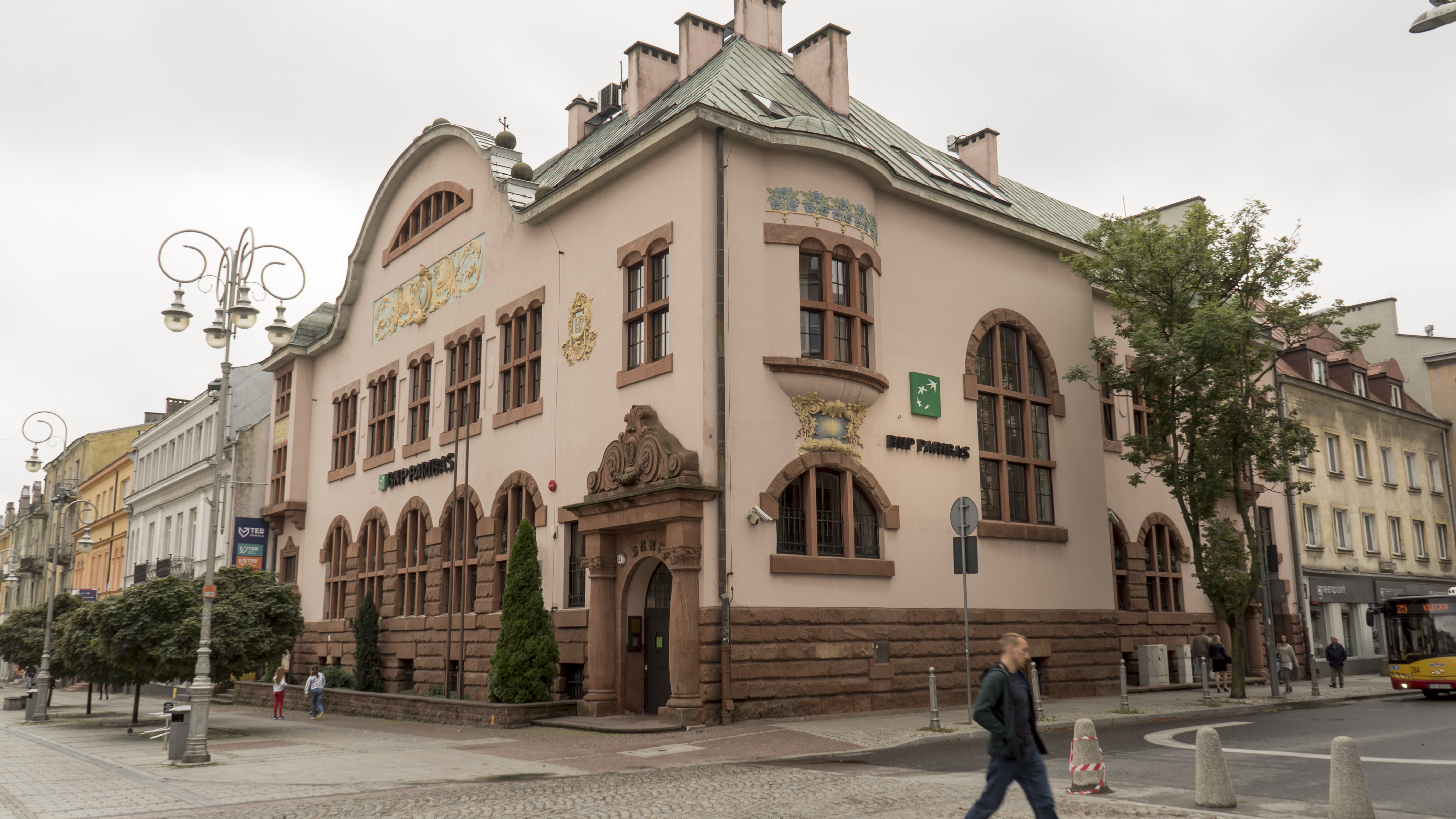 BNP Paribas bank on the corner of Sienkiewicza and Paderewskiego in Kielce - formerly known as Bank Gospodarki Żywnościowej